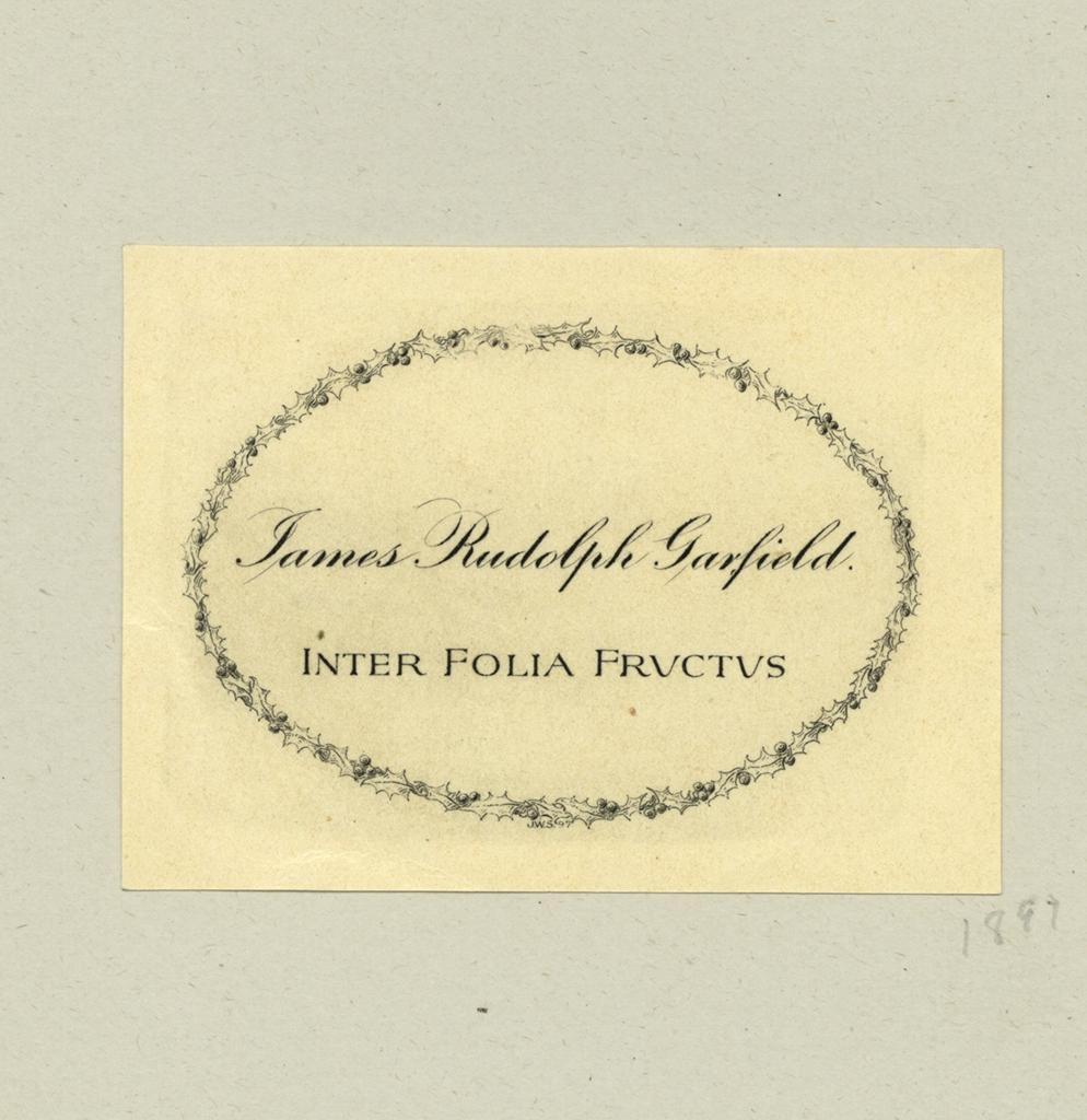 Textual Bookplates. Subject: Labels. Subject - Personal Name: Garfield, James Rudolph.